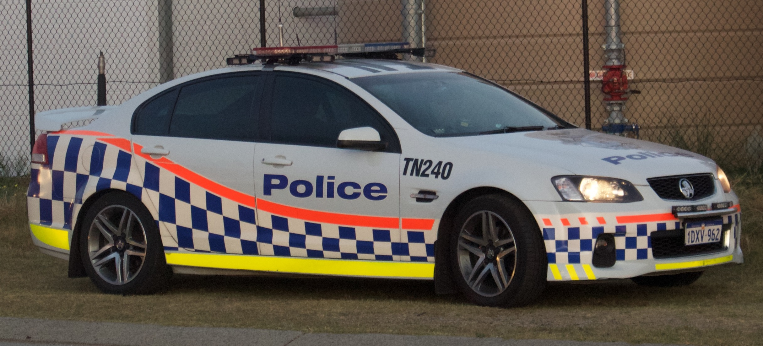 2012 Holden Commodore (VE II MY12) SV6 sedan, Western Australia Police. Photographed in Mosman Park, Western Australia Australia.